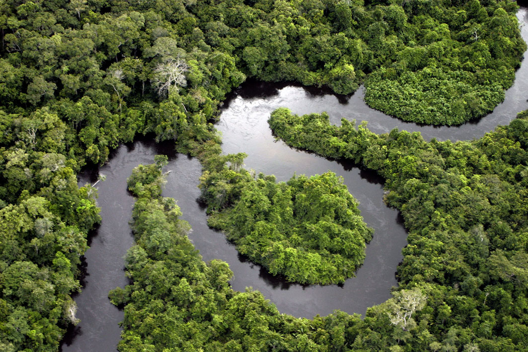 River in the Amazon Rainforest